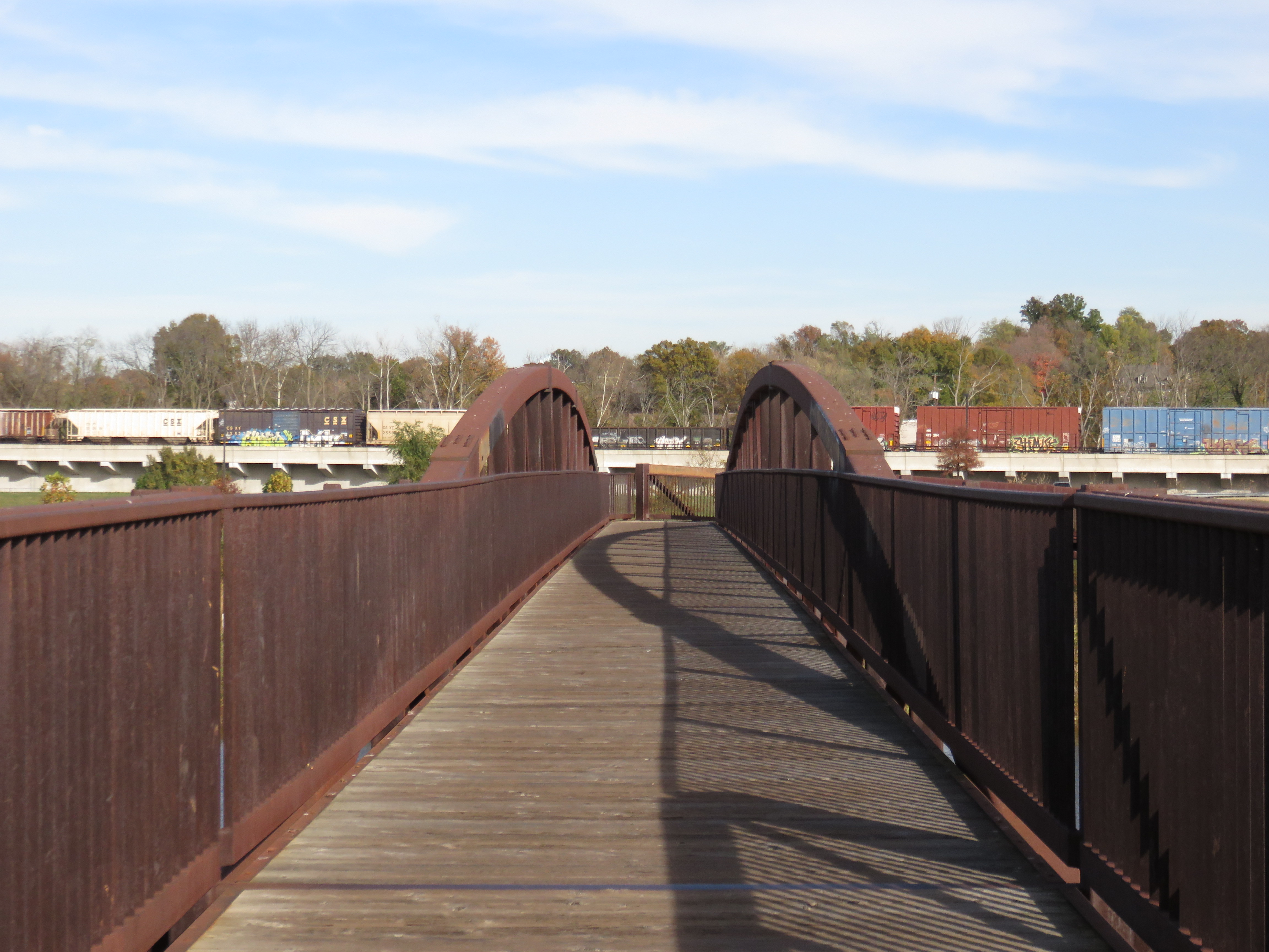 Deck of the Bladensburg Park Pedestrian Bridge over the Anacostia River in 2016